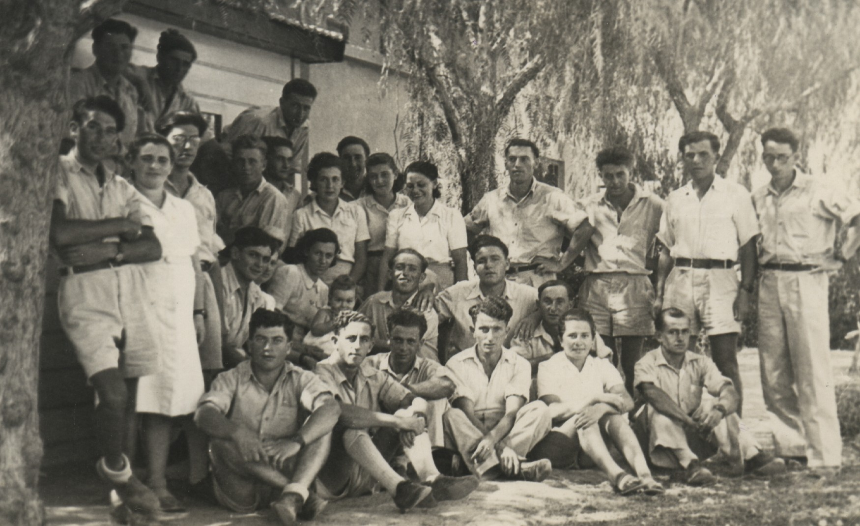 Settlements in Israel